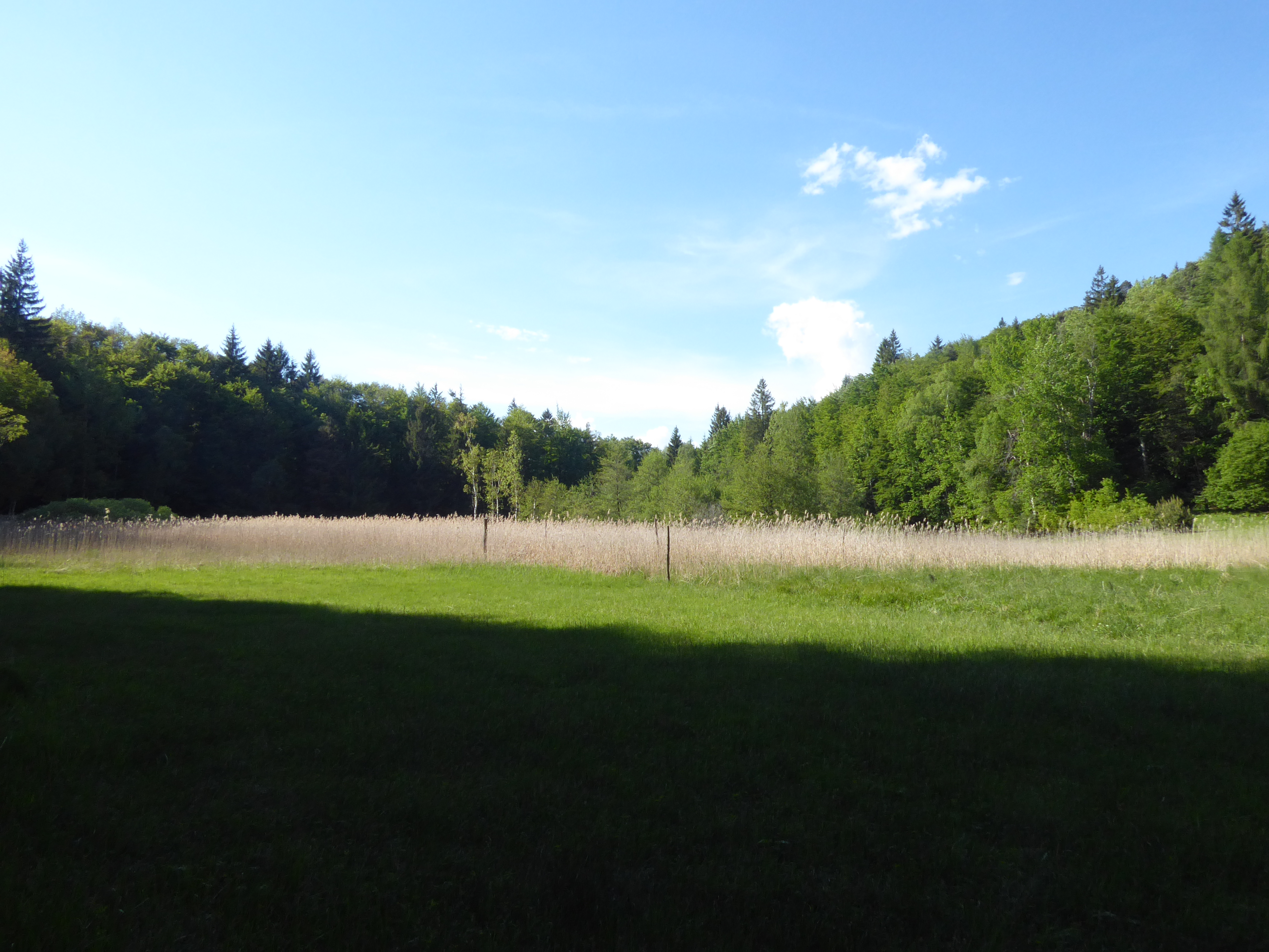 View of the natural reserve of Lagabrun (Q47522453)